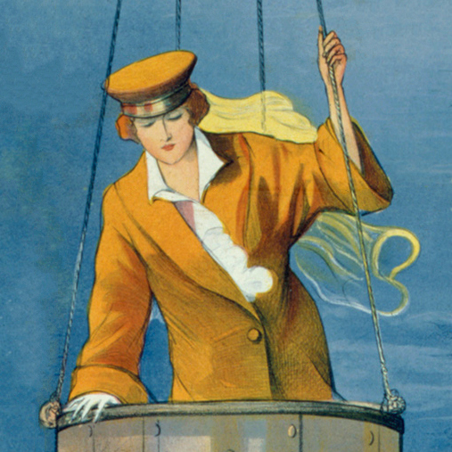 Detail from a poster for Filibus (Italy: Corona Films, 1915). Cropped by the uploader, who licenses the cropped version as PD.